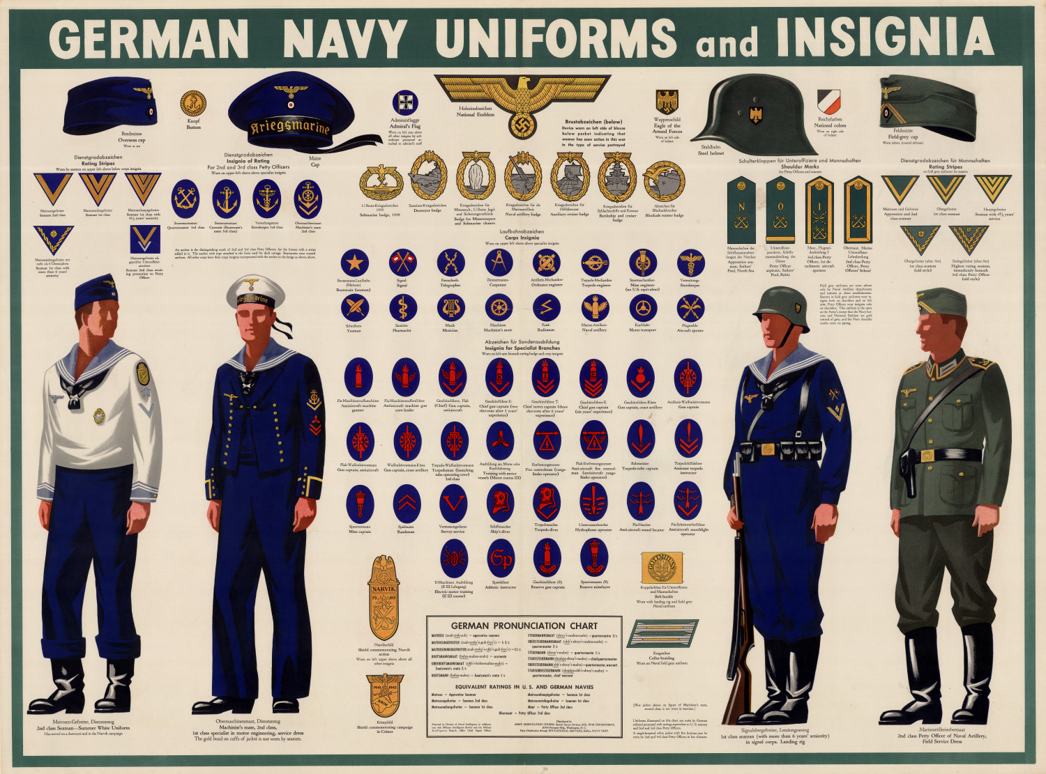 Color poster showing the insignia, patches, hats and uniforms of the German Navy (Wehrmacht Kriegsmarine). The poster features four figures wearing different navy uniforms: a white summer uniform, a blue service dress uniform, a blue signal corps uniform, and a green officer's field service dress uniform. Also shown are the national emblems which appear on headgear and buttons. Also included are charts showing German pronunciation and a comparison of ratings (ranks) in U.S. and German navies. Prepared by Division of Naval Intelligence in collaboration with Military Intelligence Service and the Military Intelligence Branch, Office Chief Signal Officer.